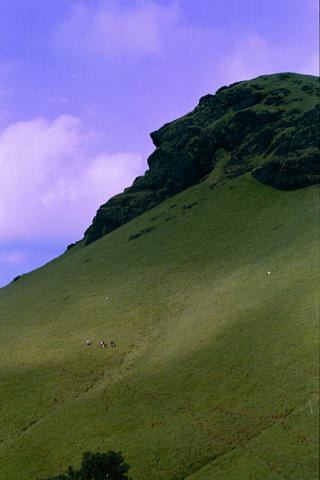 Kudremukh, the horse-faced peak